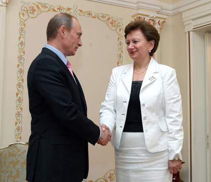 Russian Prime Minister Vladimir Putin met with Prime Minister of the Republic of Moldova Zinaida Greceanii